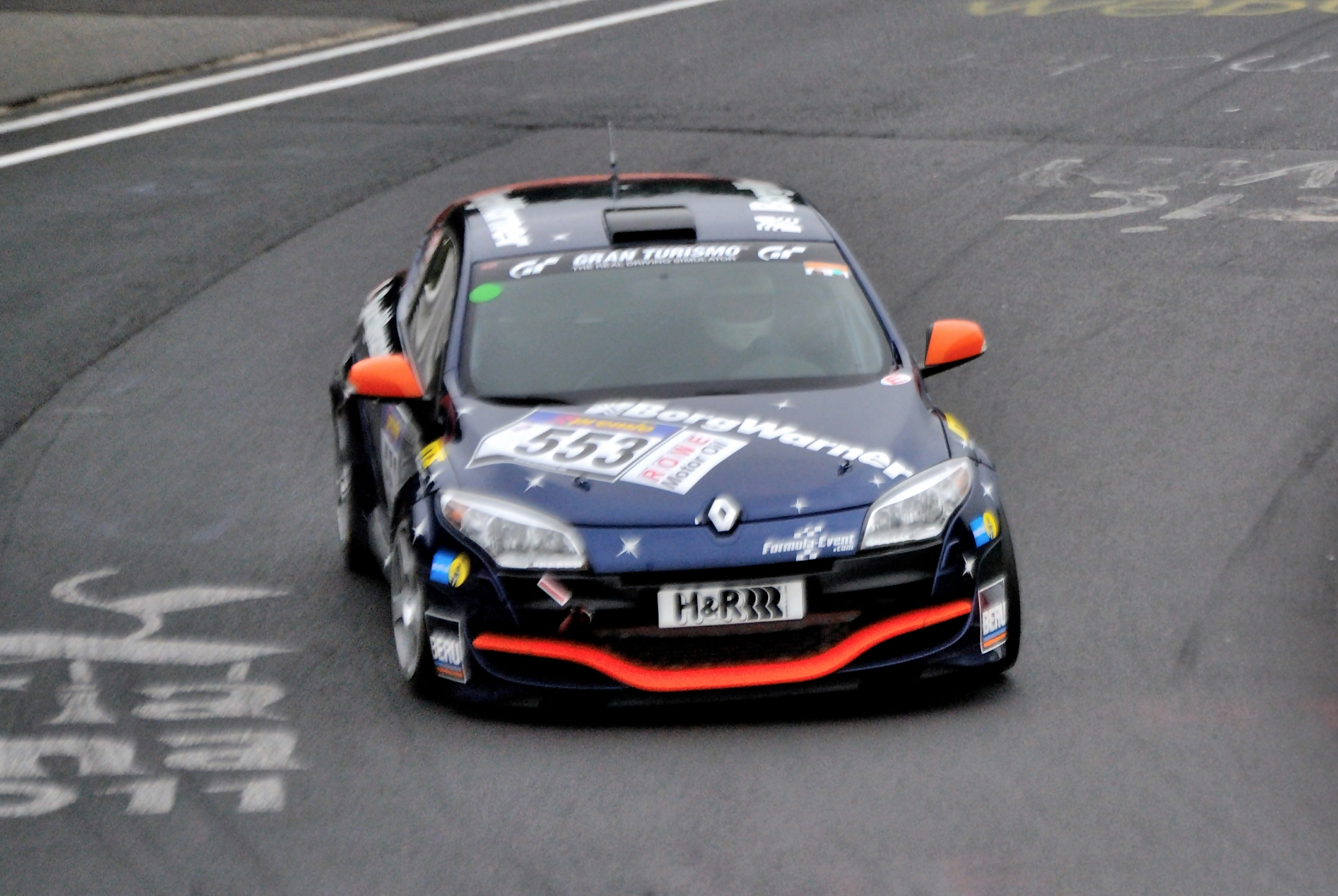 Nürburgring (Eifel, Rhineland-Palatinate, Germany) – VLN long distance championship 2011 – 34. RCM DMV Grenzlandrennen race – Nordschleife, section Nordkehre – Renault Mégane RSThis photograph was taken with a Nikon D3000